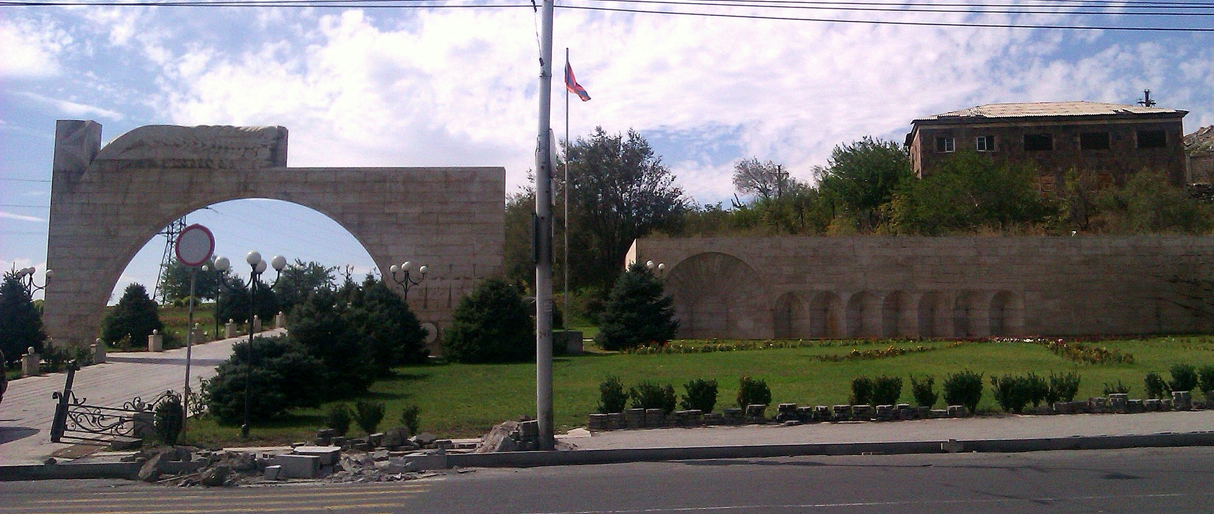 Yerablur military cemetery (the entrance), Yerevan, Armenia